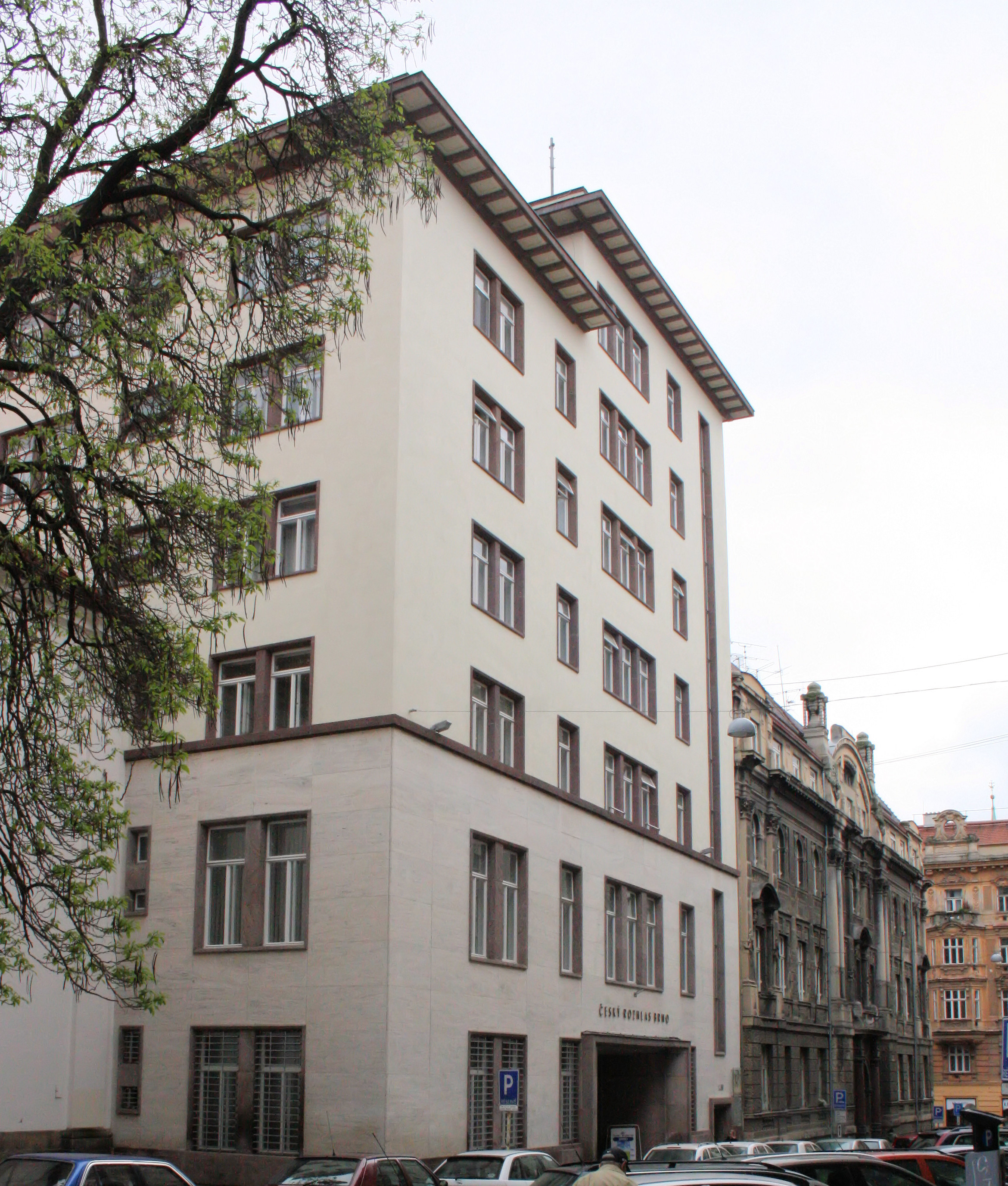 Building of Czech Radio by Ernest Wiesner, Beethovenova st. No 4, Brno, Czech Republic.